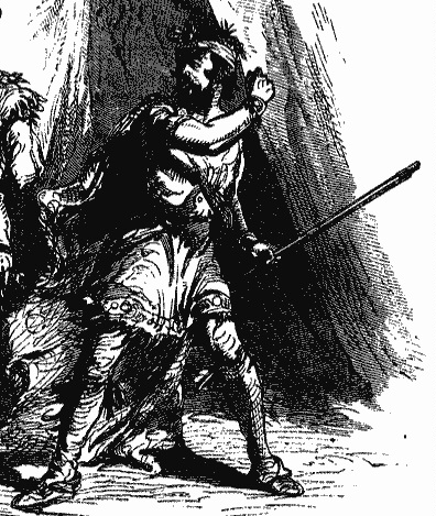 Simon Girty, an American Indian leader.